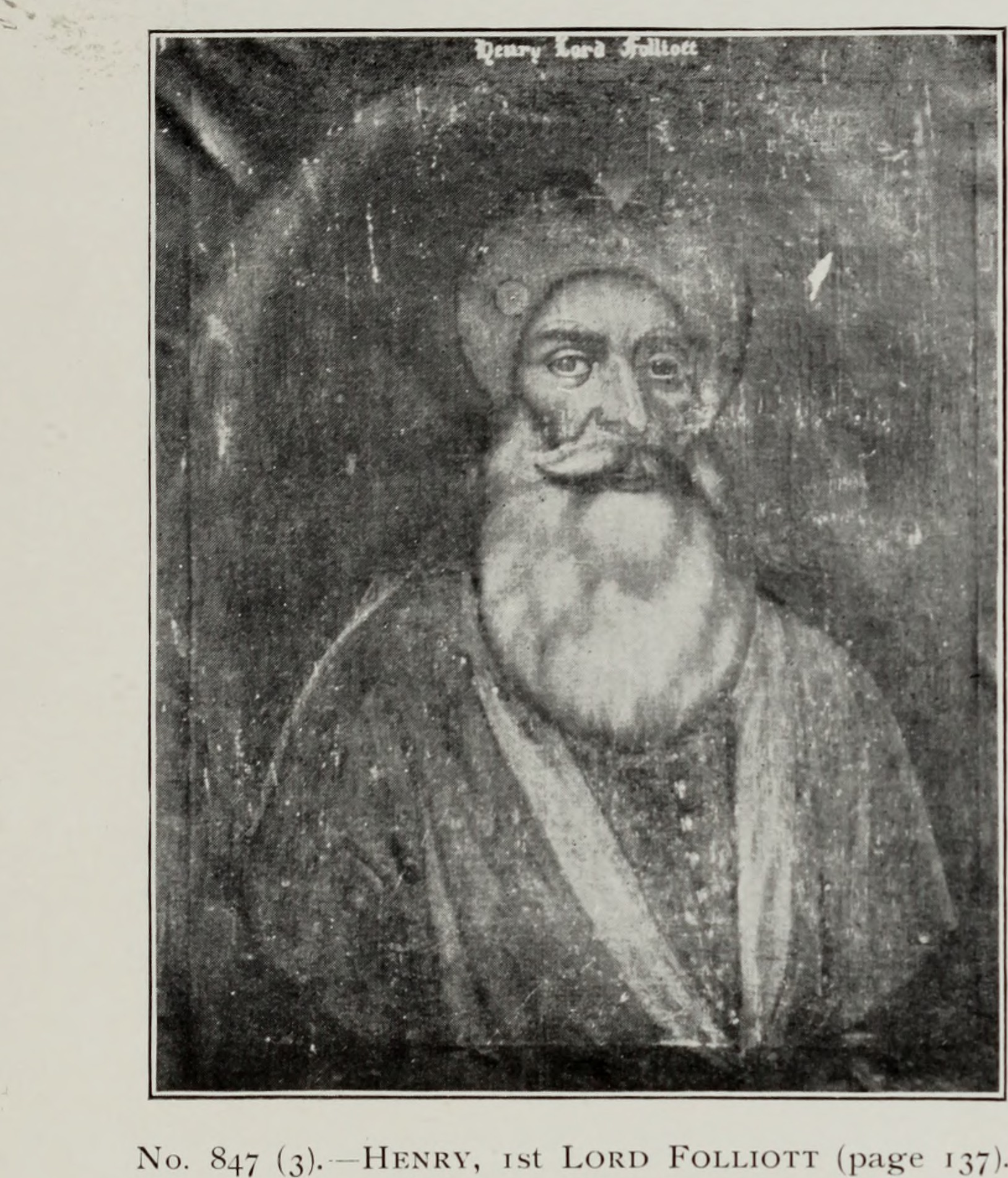 Title: Catalogue of portraits, miniatures &c. : in the possession of Cecil George Savile, 4th Earl of Liverpool, Lord Steward, &c Year: 1905 (1900s) Authors: Savile, Cecil George Subjects: Kirkham Abbey (Yorkshire, England) Publisher: (Liverpool : s.n.) Text Appearing Before Image: No. 847 (2).—Serjeant John Sarazen, aged 101 (page 137). Plate LXXVI. Text Appearing After Image: Plate LXXVII.